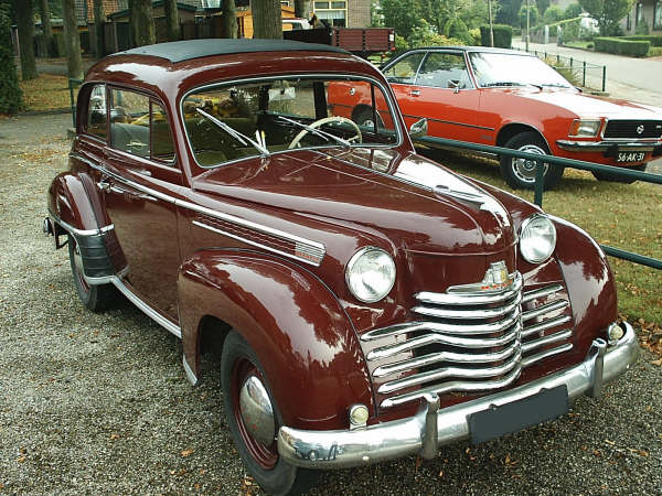 Opel Olympia 1952.